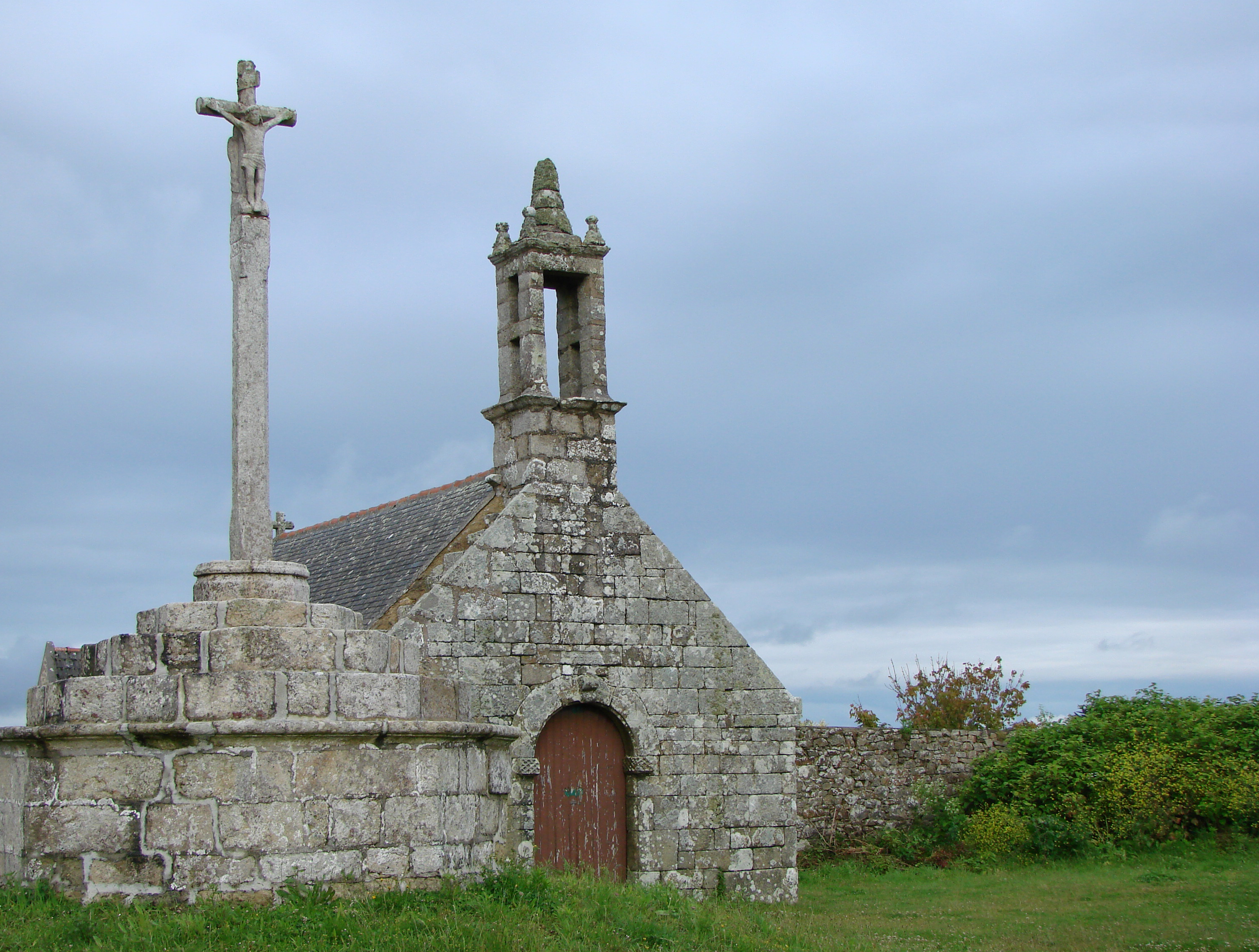 Saint-Yves chapel, in Plogoff near the Pointe du Raz in Finistère.